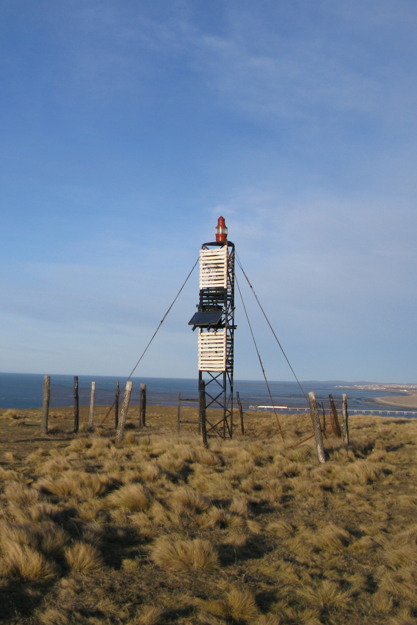 Lighthouse Cabo Domingo (Rio Grande, Tierra del Fuego)